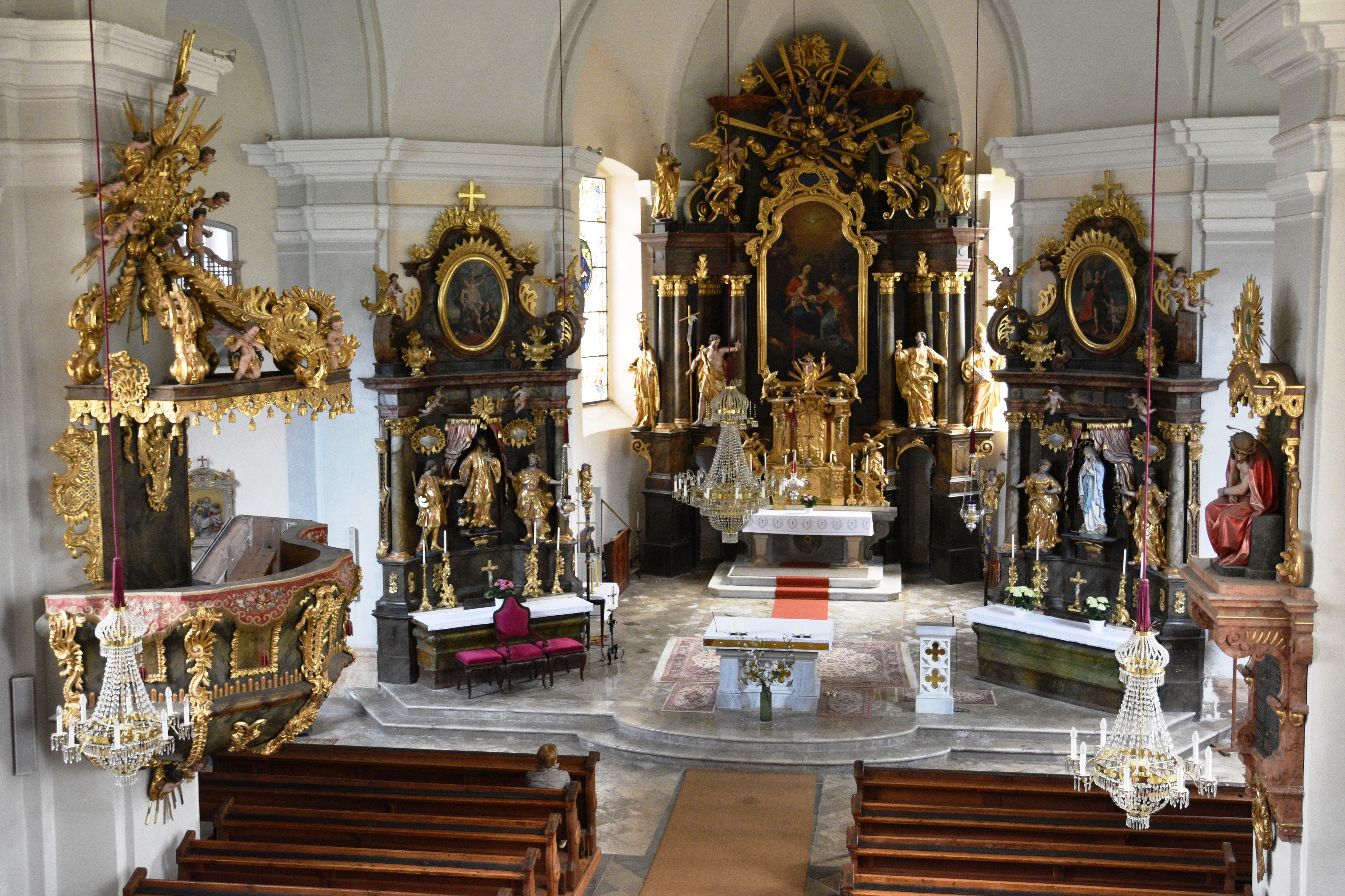 Church Pfarrkirche hl. Katharina, Stanz im Mürztal Interior